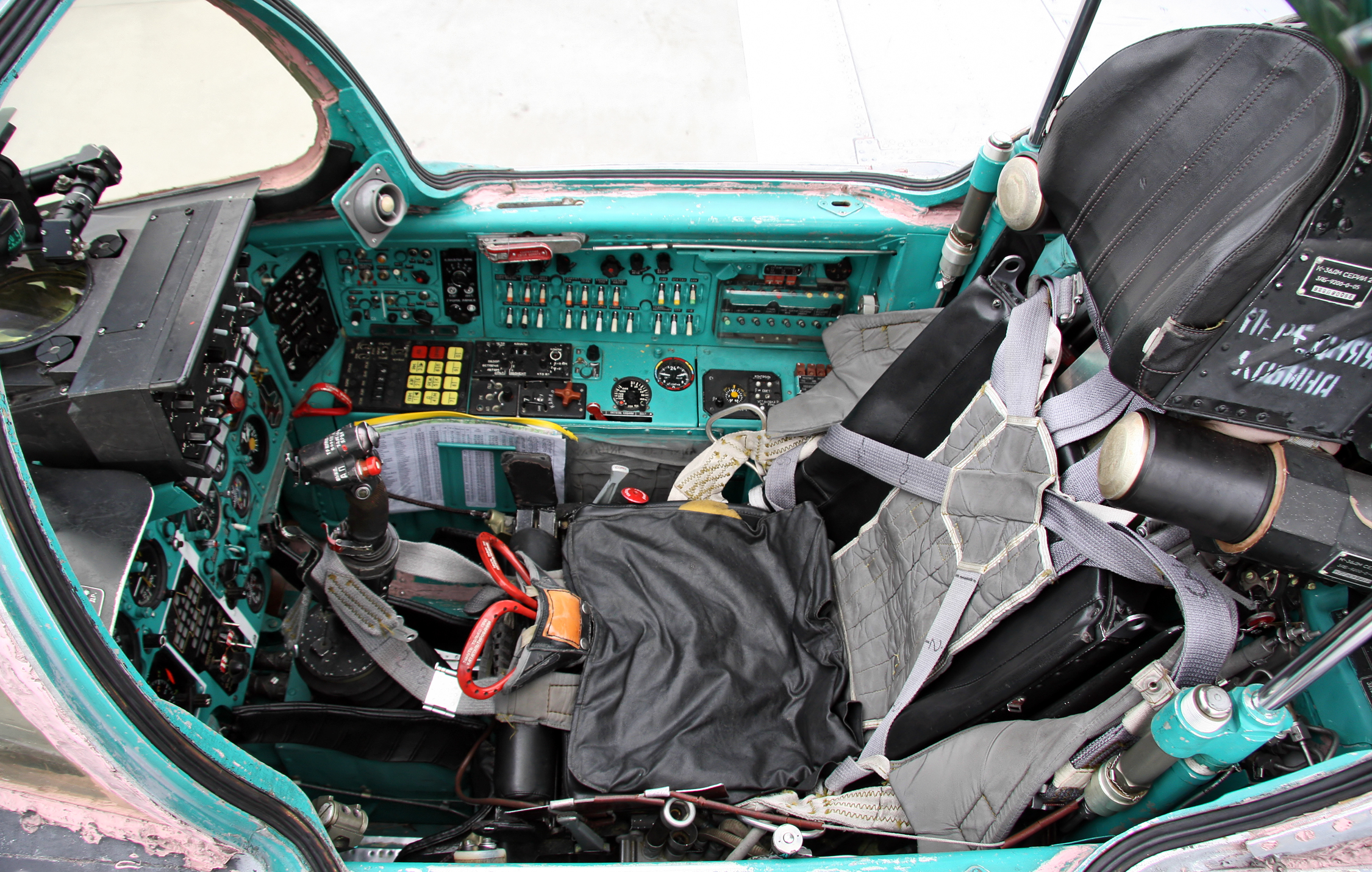 First pilot cockpit of Mikoyan-Gurevich MiG-31 interceptor